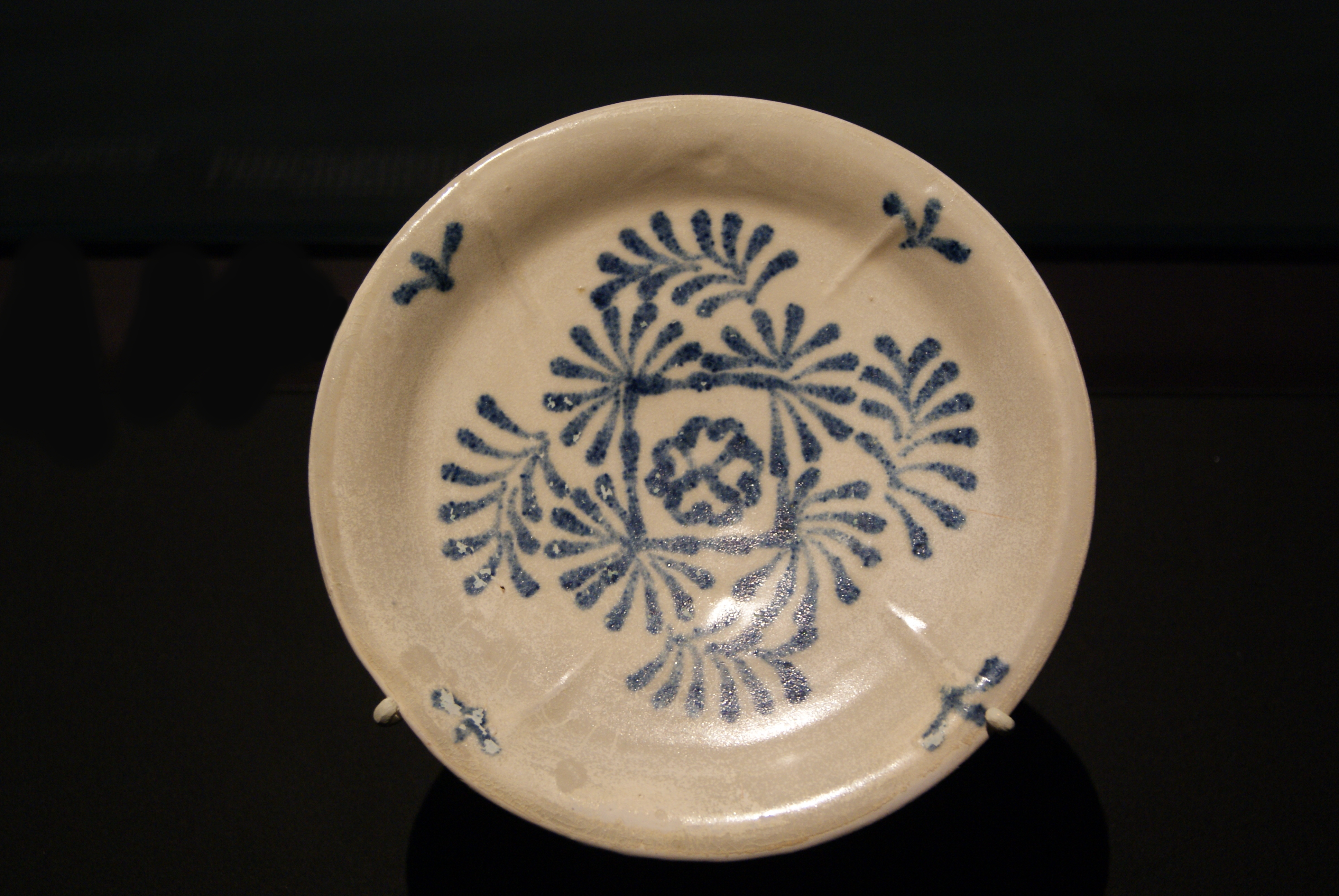 Part of the collection of artifacts from the Belitung shipwreck owned by the Sentosa Leisure Group and the Government of Singapore, photographed while displayed at an exhibition called Shipwrecked: Tang Treasures and Monsoon Winds at the ArtScience Museum, Marina Bay Sands, Singapore, from 19 February 2011 to 31 July 2011.